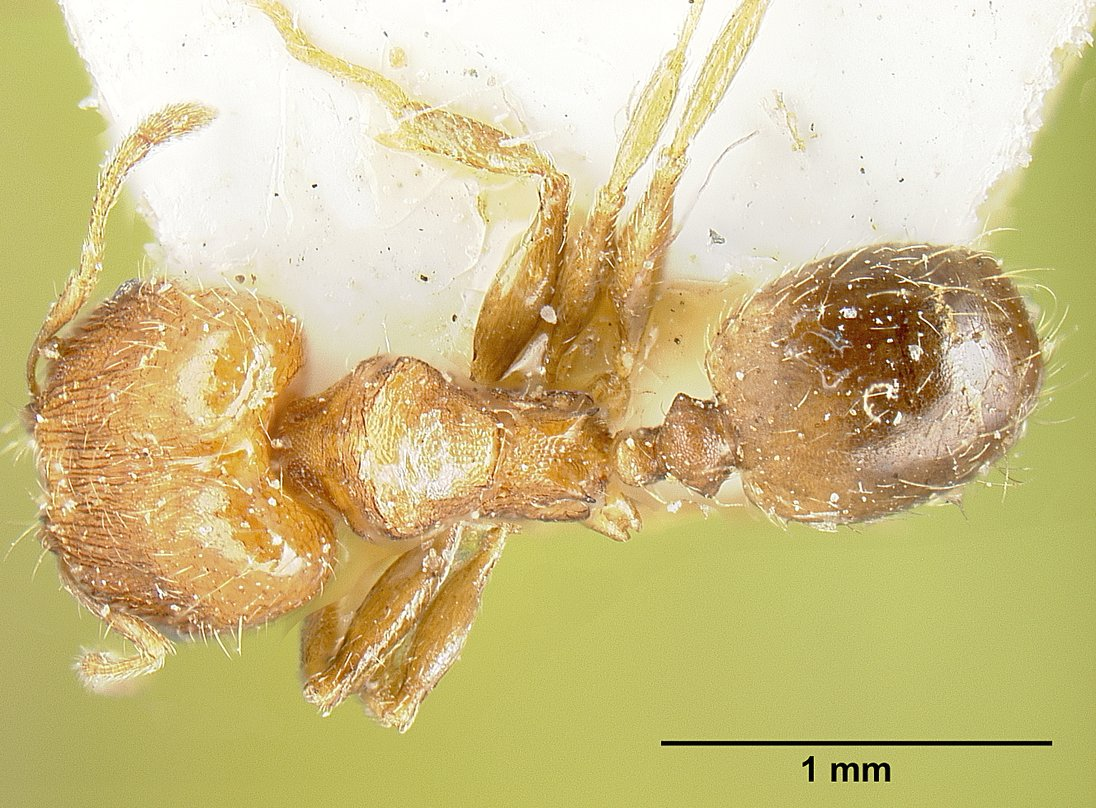 Dorsal view of ant Pheidole bilimeki specimen jtlc000014091.